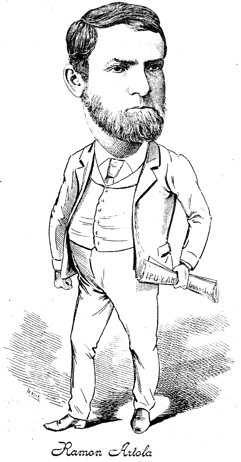 Caricature of Ramon Artola